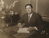 Former congressman Calvin D. Johnson of Illinois.